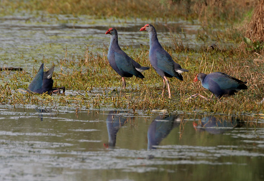 Purple Swamphen Porphyrio porphyrio at/ near Hodal, Faridabad, Haryana, India.